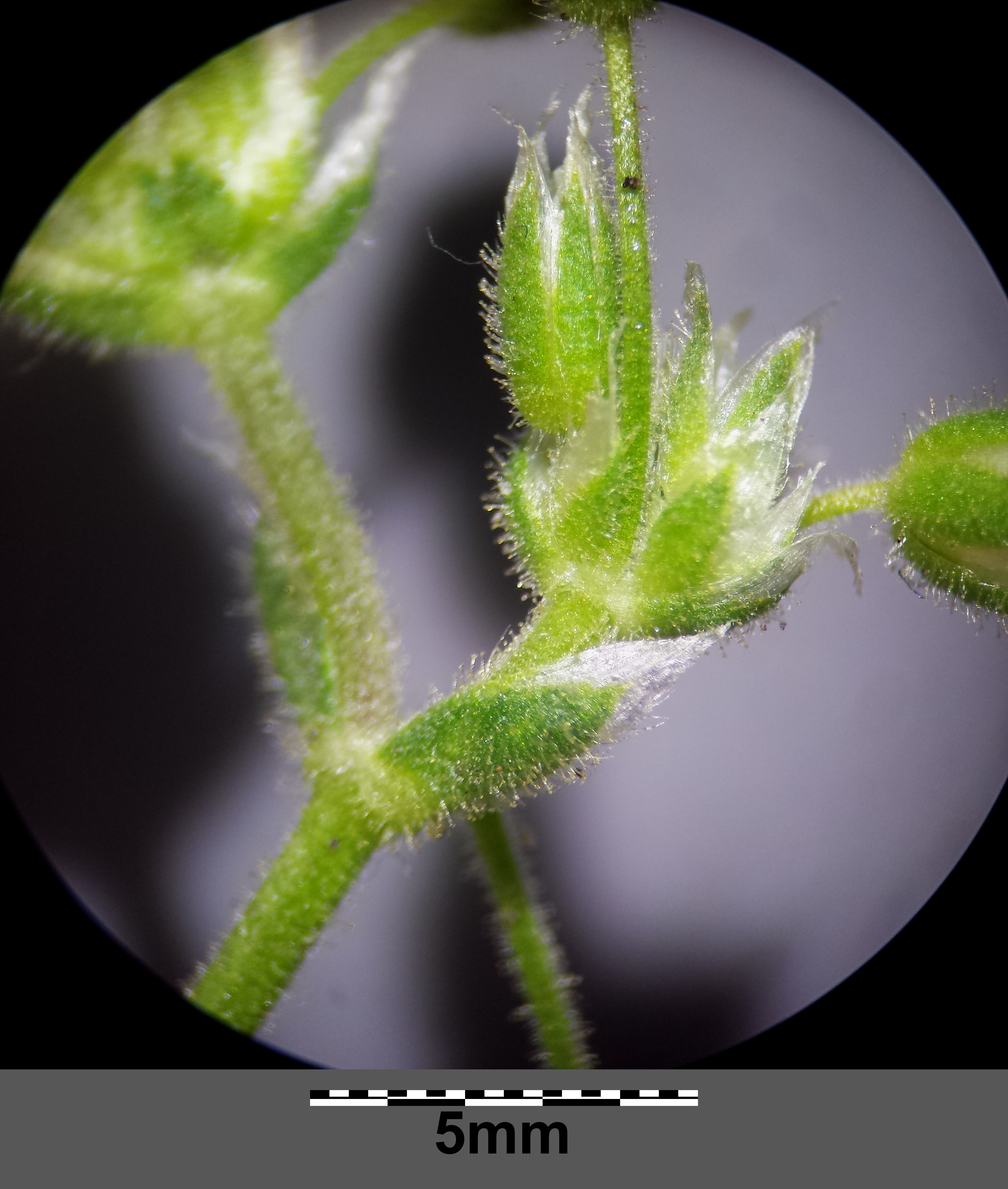 Florescence, cyme bracts with skinlike border Taxonym: Cerastium semidecandrum ss Fischer et al. EfÖLS 2008 ISBN 978-3-85474-187-9 Location: Haulesbergen, district Mistelbach, Lower Austria - ca. 200 m a.s.l. Habitat: semi-dry grassland